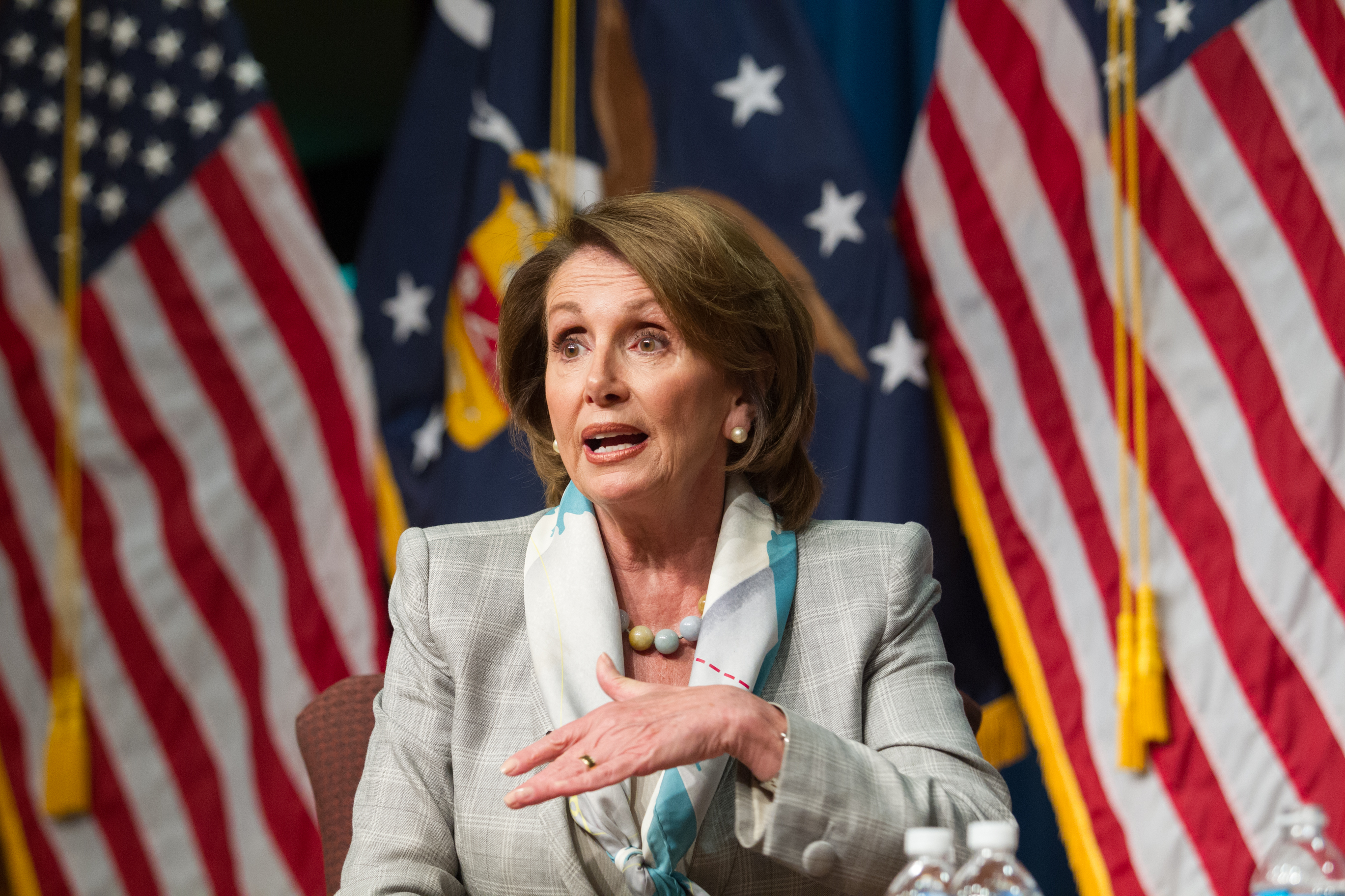 14 April 2015 – Washington, DC – Secretary of Labor Thomas Perez leads an Equal Pay Day Discussion with Representative Nancy Pelosi. Also delivering remarks is Congresswoman Rosa DeLauro, White House Advisor Valerie Jarrett and Women’s Bureau Director Latifa Lyles. Official Department of Labor Photograph*** Photographs taken by the federal government are generally part of the public domain and may be used, copied and distributed without permission. Unless otherwise noted, photos posted here may be used without the prior permission of the U.S. Department of Labor. Such materials, however, may not be used in a manner that imply any official affiliation with or endorsement of your company, website or publication.